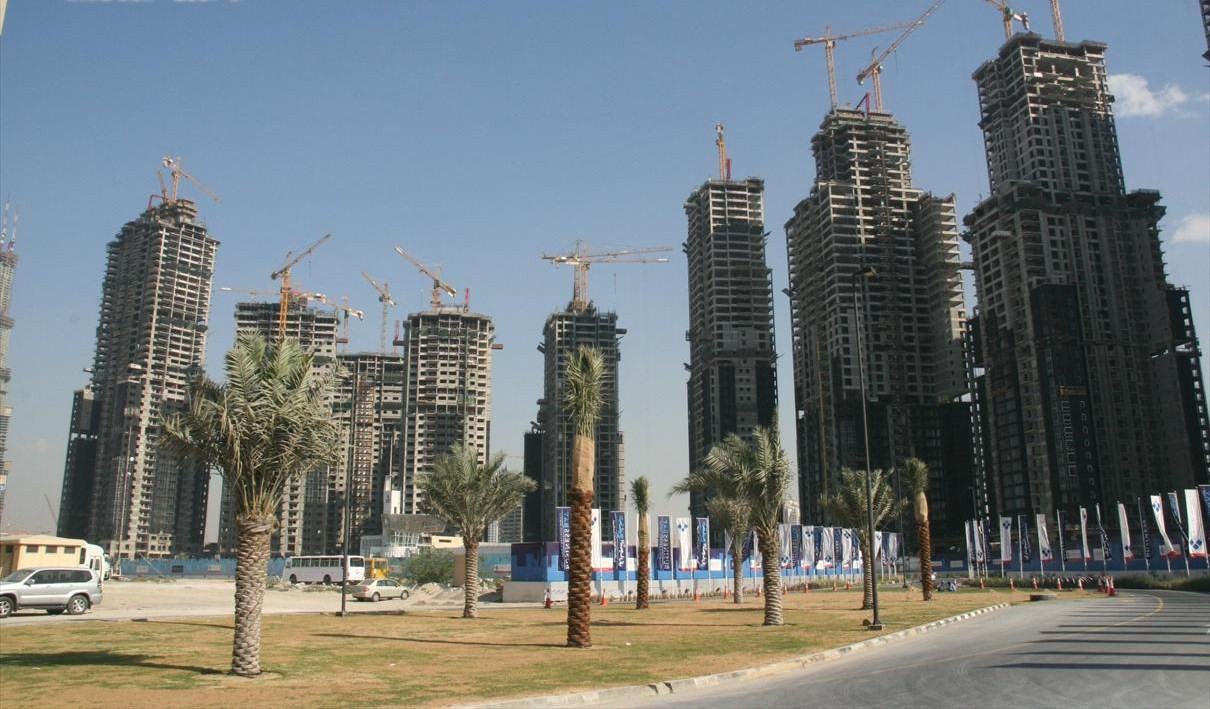 This is a photo showing the construction the Executive Towers in Business Bay in Dubai, United Arab Emirates on 30 January 2007.